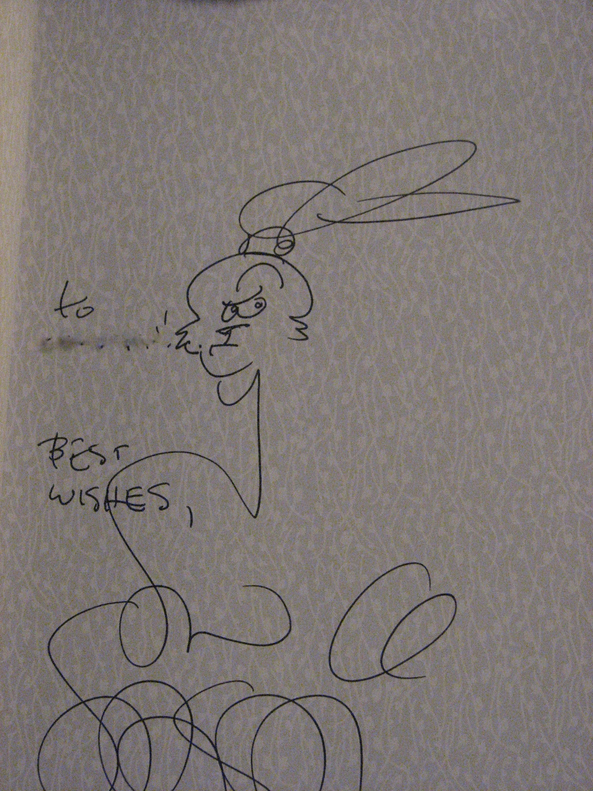 This is a signature of an artist Stan Sakai, with a sketch of his famous Character Usagi Yojimbo